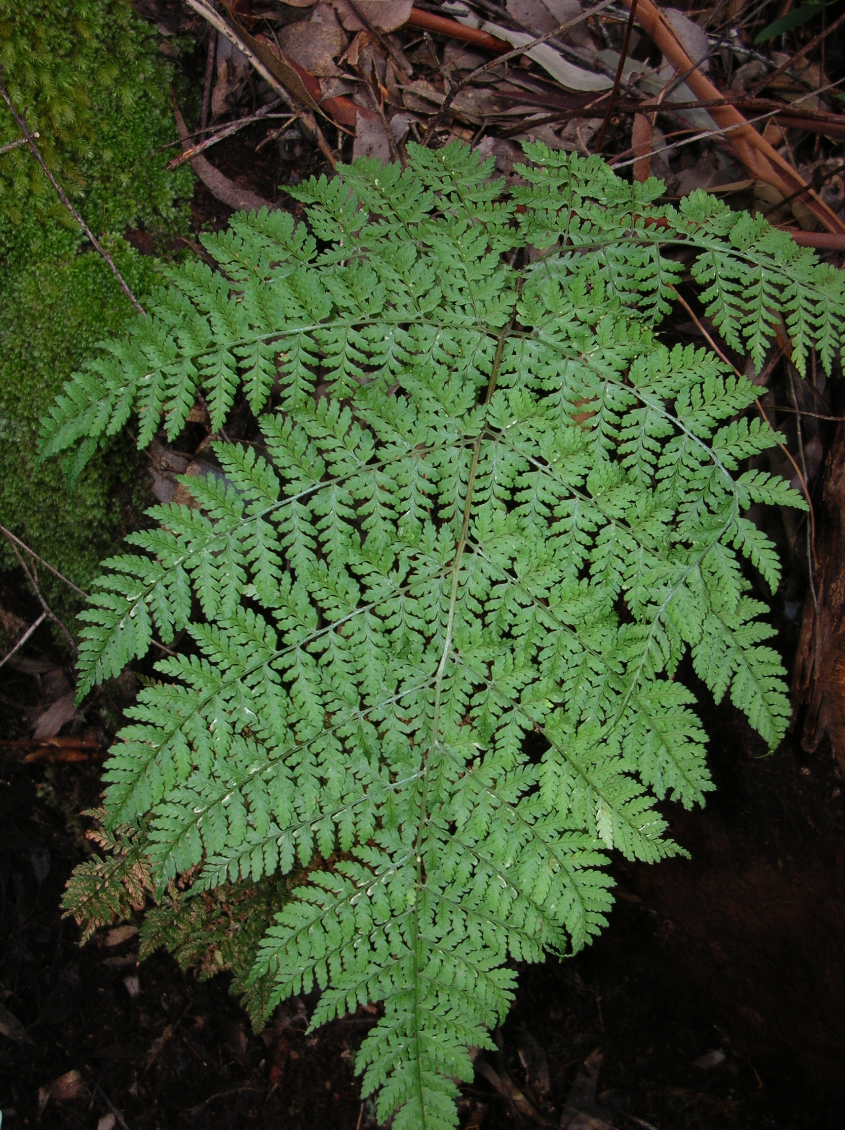 Dryopteris glabra (blade). Location: Maui, Makawao Forest Reserve